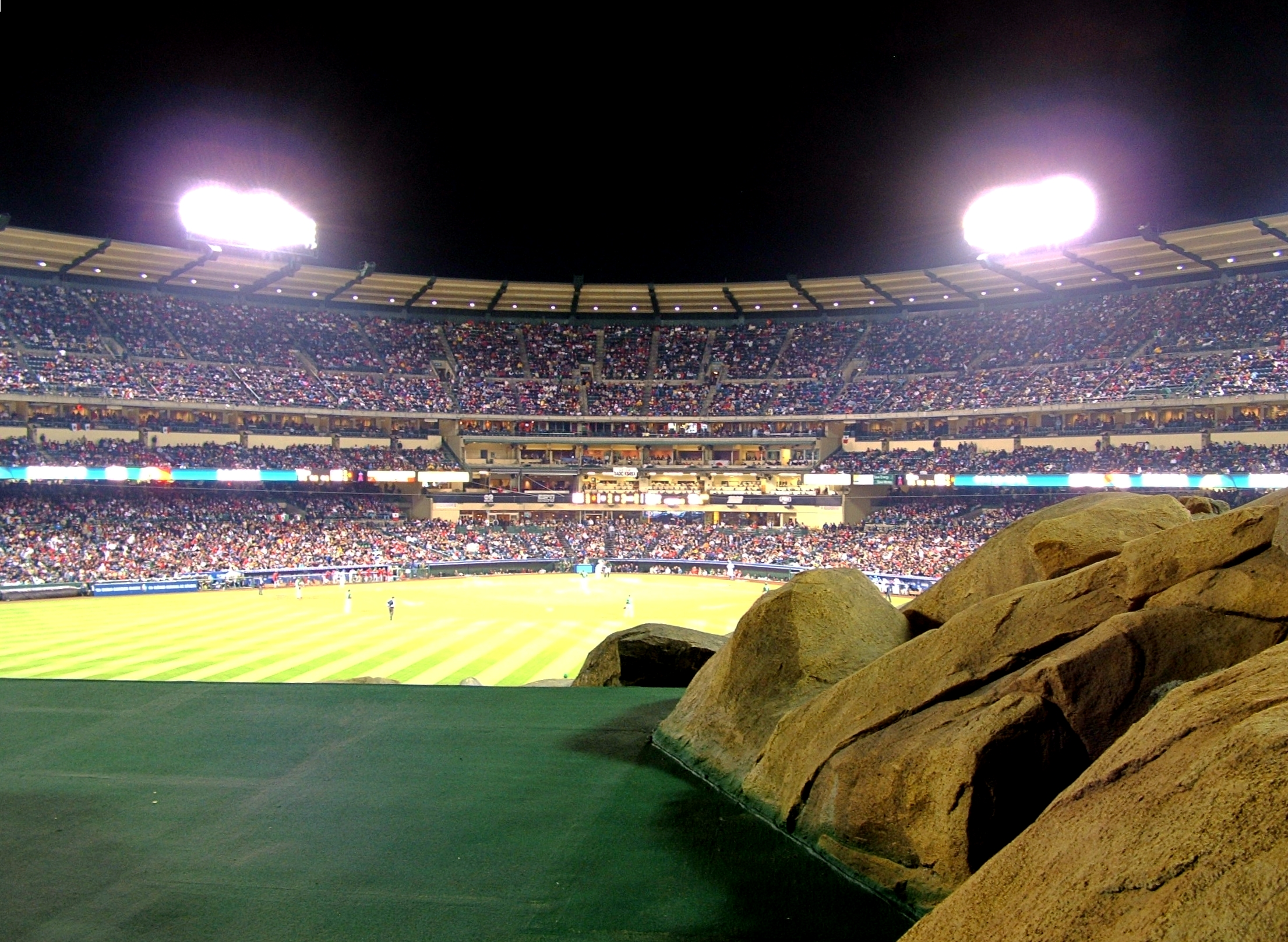 Angel Stadium in Anaheim, California. Taken durring the Mexico - Korea game durring the first round of the world baseball classic